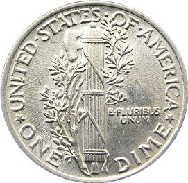 Reverse of the "Mercury" Dime